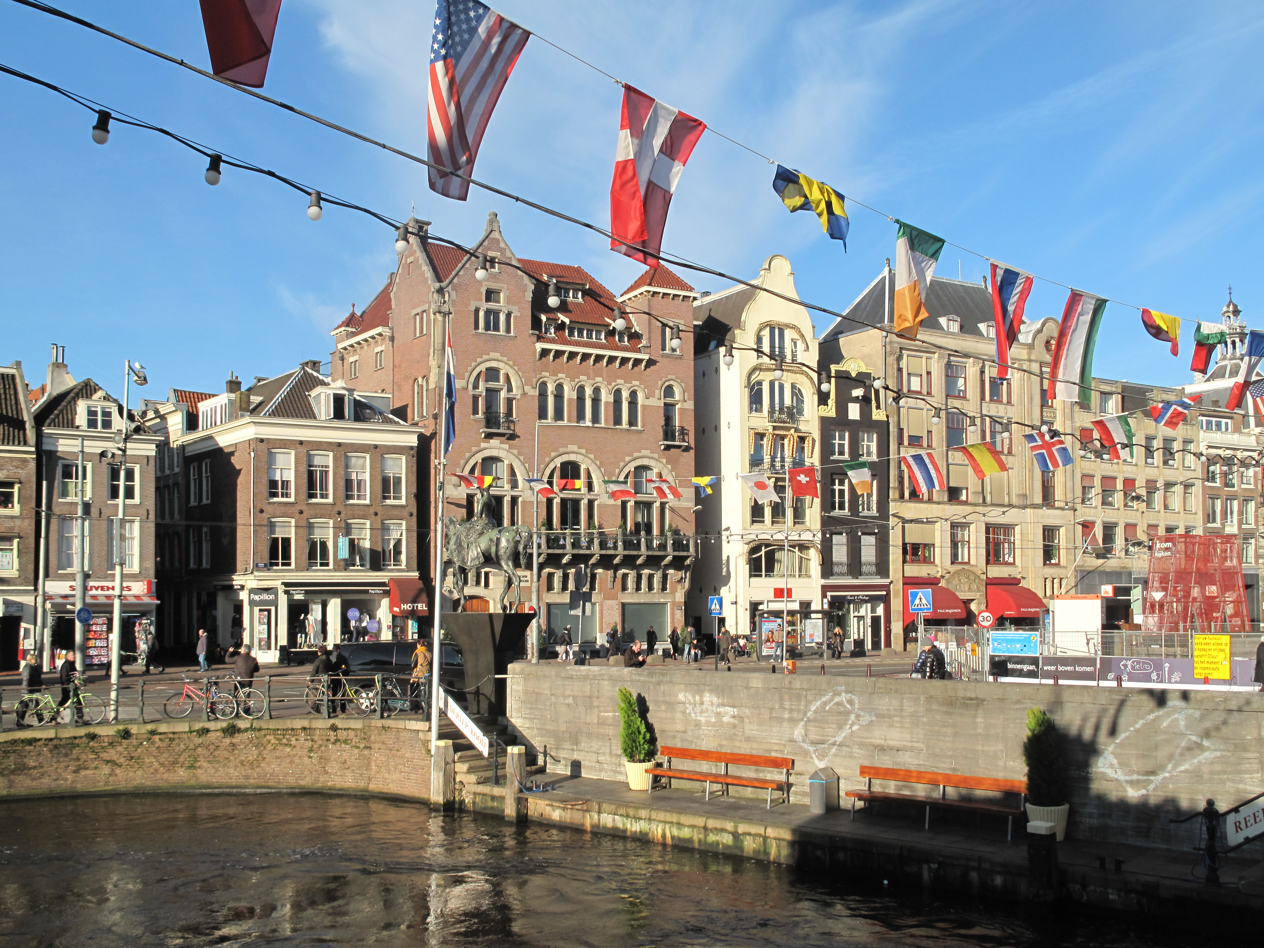 Amsterdam, het Rokin near shipping company Kooij